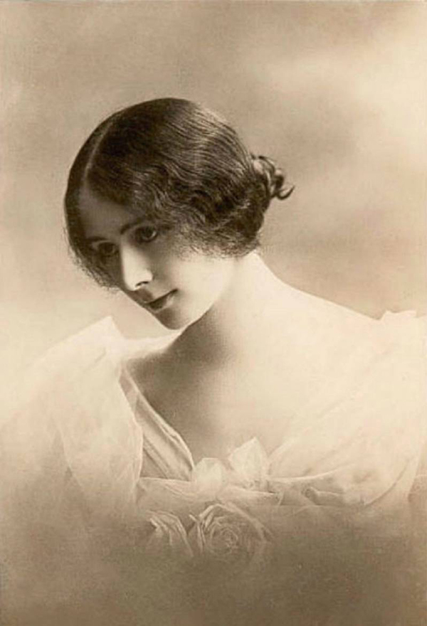 Cleo de Merode (1875-1966), Music Hall artiste